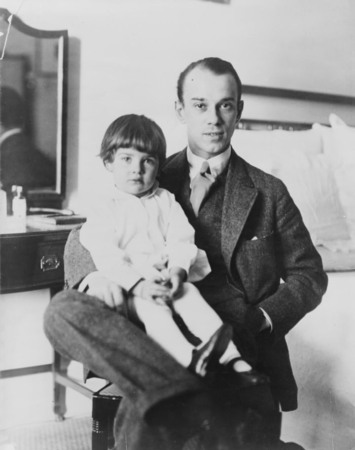 Vaslav Nijinsky and his little daughter Kyra (births 18 June 1914) at his apartments in the Biltmore. Reproduction Number: LC-USZ62-121162 Repository: Library of Congress Prints and Photographs Division Washington, D.C. 20540 USA Credit line: No information on creator or on reproduction rights found with the image, 1998.